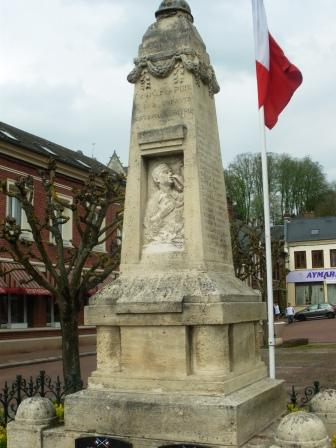 The monument aux morts at Poix-de-Picardie